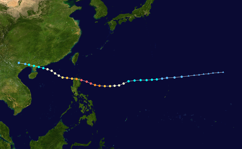 Typhoon Gordon 1989 track. Uses the color scheme from the Saffir-Simpson Hurricane Scale.